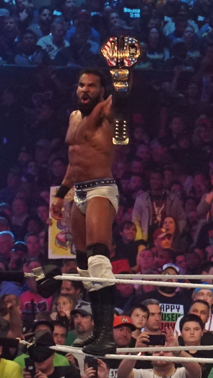 Jinder Mahal after winning the WWE United States Championship at WrestleMania 34.